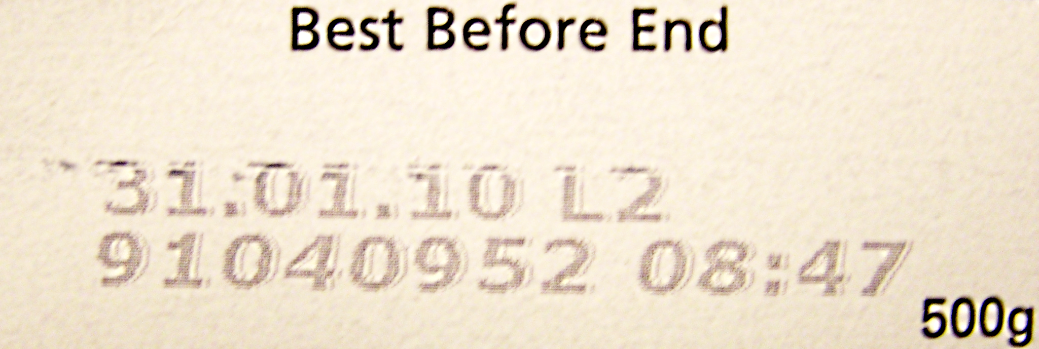 A photograph of a 'Best Before date' on commercial packaging to illustrate the concept. Is non-specific.